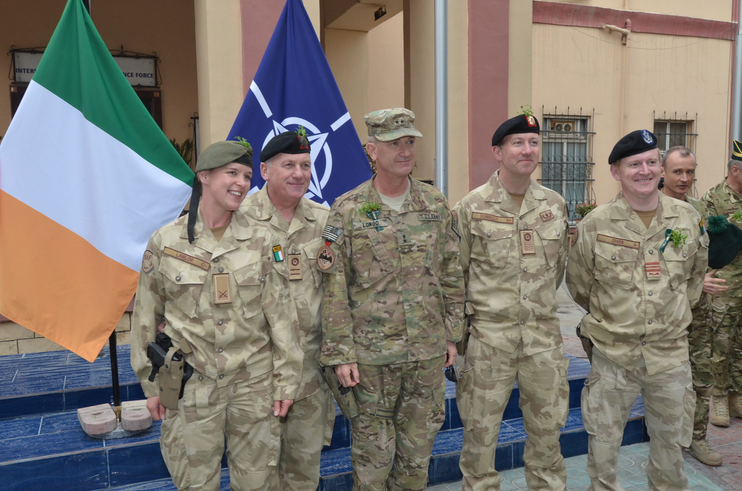 Kabul, Afghanistan - Today, members of the International Security Assistance Force (ISAF) celebrated St. Patrick’s Day, the Irish National Day, with the Chief of Staff of the Irish Defense Forces and members of the Irish Contingent. St. Patrick’s Day is internationally renowned as an opportunity for Irishmen worldwide and descendants of Ireland, as well as all cultures and ethnicities to take part in the history of a nation, whose legacy of determination and fellowship was reflected today, as ISAF colleagues came together. Leaders recognized St. Patrick as a symbol of unity here. (Photo by Staff Sgt. Bruce Cobbeldick, HQ ISAF Public Affairs)